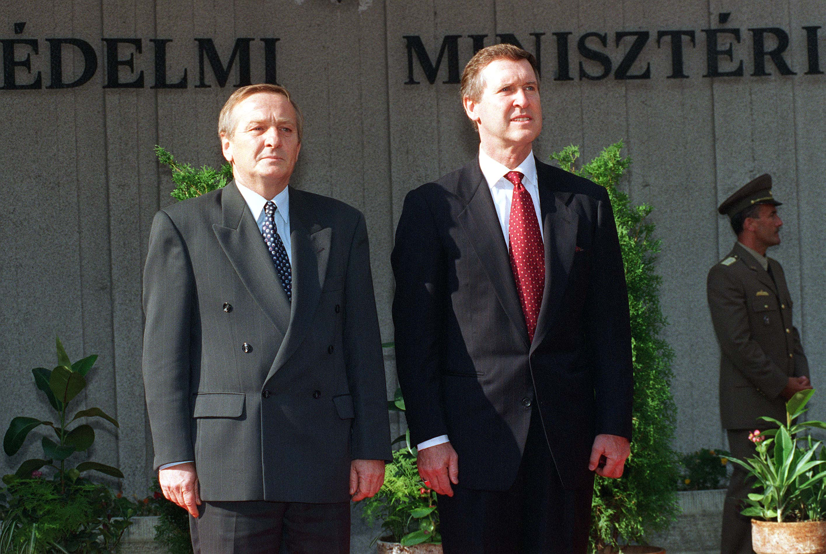 Secretary of Defense William Cohen (right) stands with Hungarian Defense Minister Gyorgy Keleti (left) as military honors are rendered during welcoming ceremonies in Budapest, July 10, 1997. Cohen visited Hungary, in part, to congratulate them on being selected as one of the three former Soviet Bloc nations to be offered NATO membership at the just completed NATO summit held in Madrid, Spain. The other part of his message was that much remains to be done to insure that Hungary is capable of assuming the responsibilities that accompany the privileges of NATO membership. Secretary Cohen held meetings with the nation's senior leadership to pledge U.S. support for their efforts to modernize their military, but Minister Keleti warned that "We have to set our priorities right." Given the primary requirement of economic stability, Keleti suggested that it could take eight to 10 years for Hungary's forces to be fully compatible with those of other NATO nations.